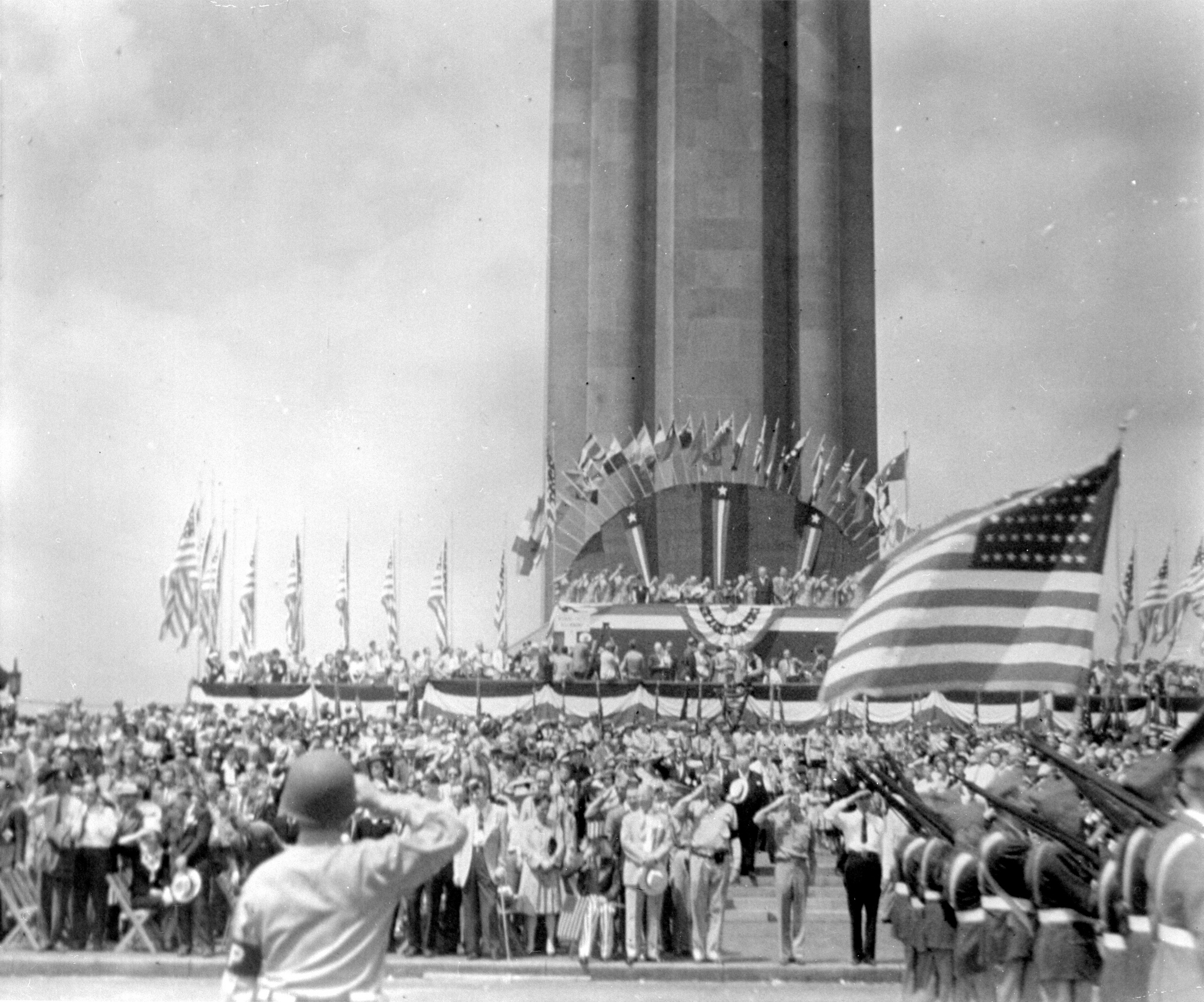 Commemorative tribute at the Liberty Memorial, c. 1940